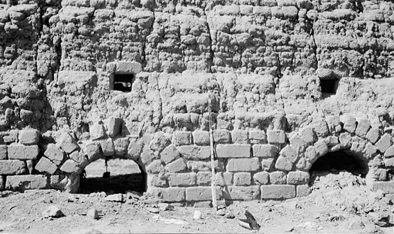 Adobe Brick Kilns (Ruins) — near, Pima County, Arizona Detail of Adobe Brickwork at arched openings, looking west. The Kilns were built by Spanish colonists in the 18th century. Image courtesy of Historic American Buildings Survey—HABS.